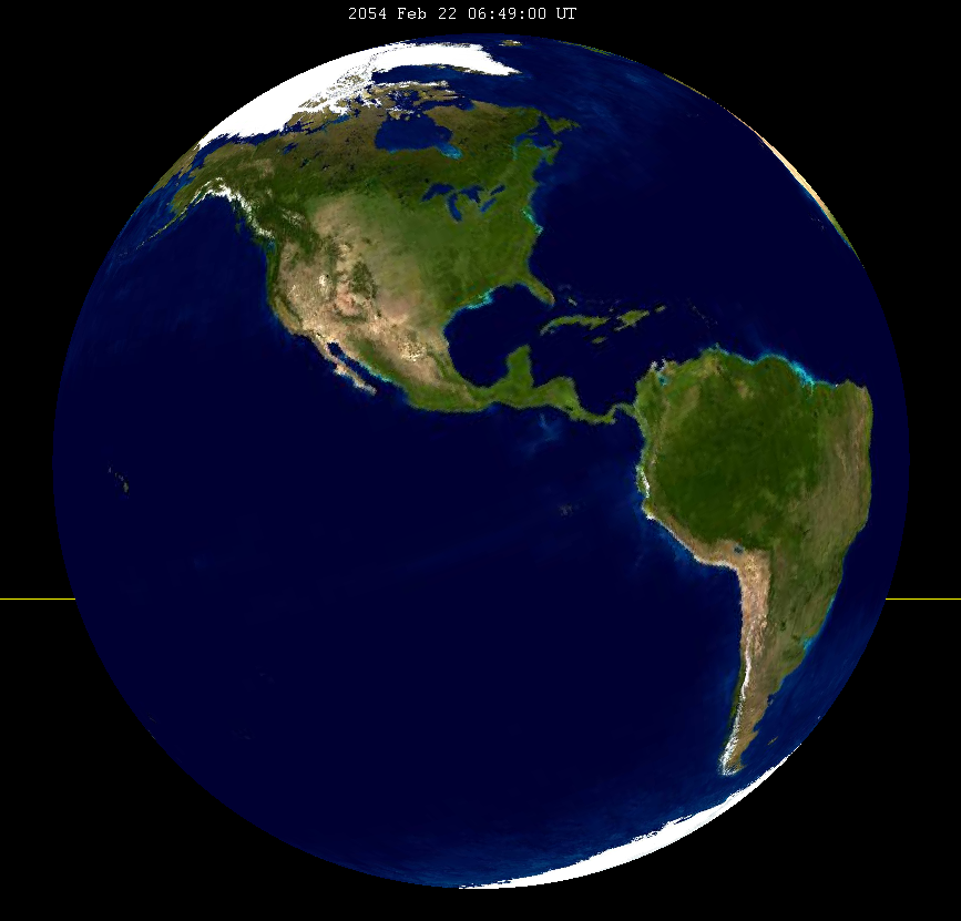 February 2054_lunar_eclipse view of earth The orientation of the earth as viewed from the center of the moon during greatest eclipse. thumb